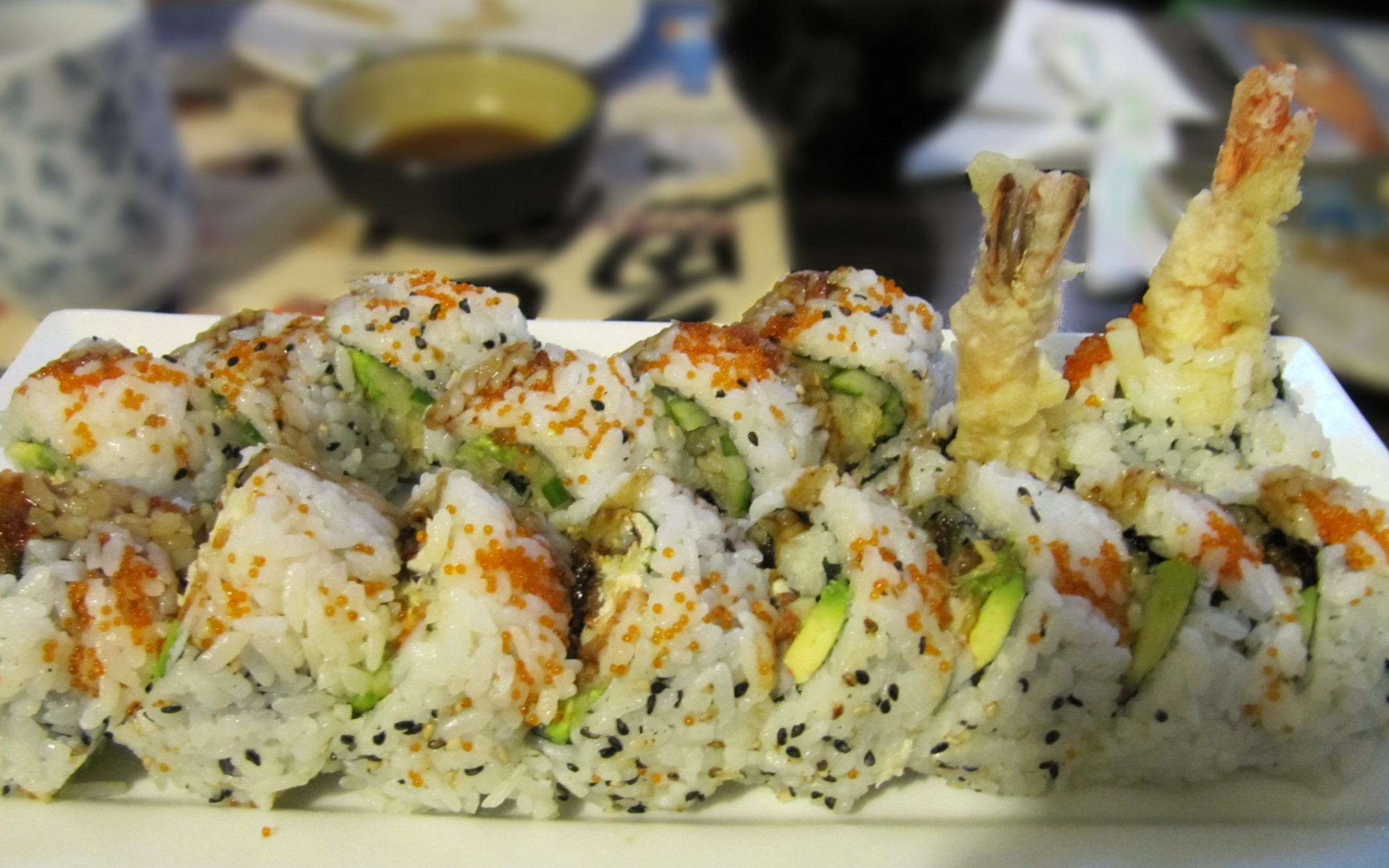 Spider Roll and Tempura Shrimp Roll, from Kyoto House on Dundas.